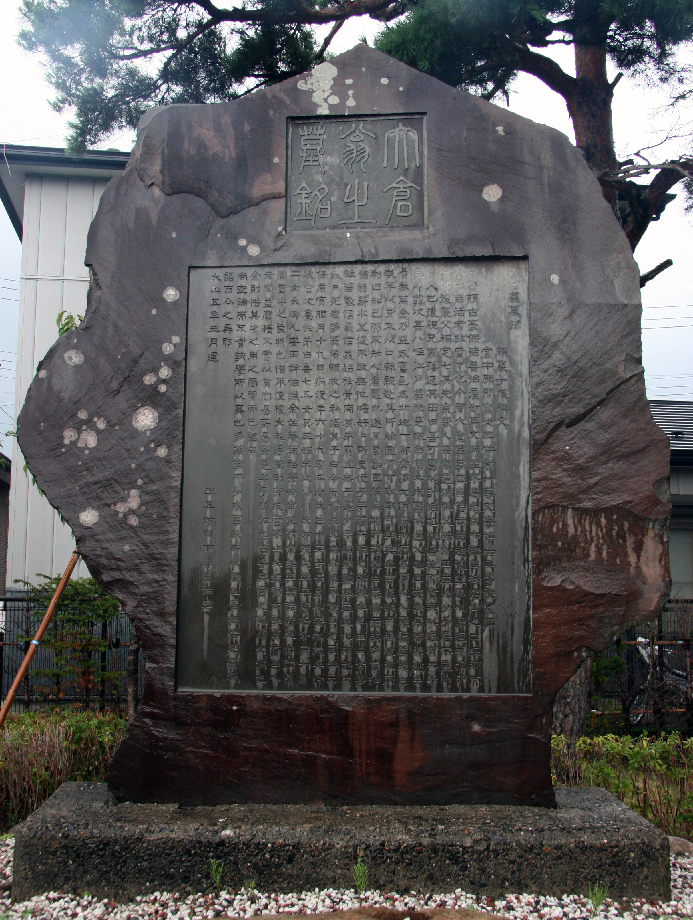 an epitaph on the tombstone of Okura Kihachiro in Shibata, Niigata